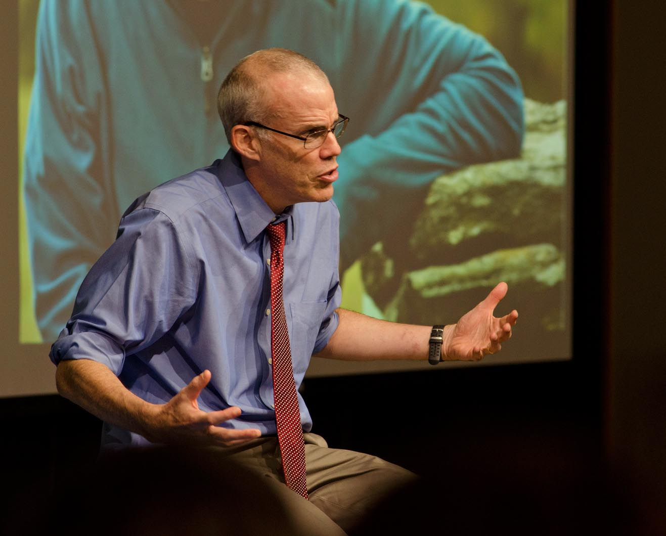 Bill McKibben, Author, Environmentalist and Founder of the climate grassroots movement